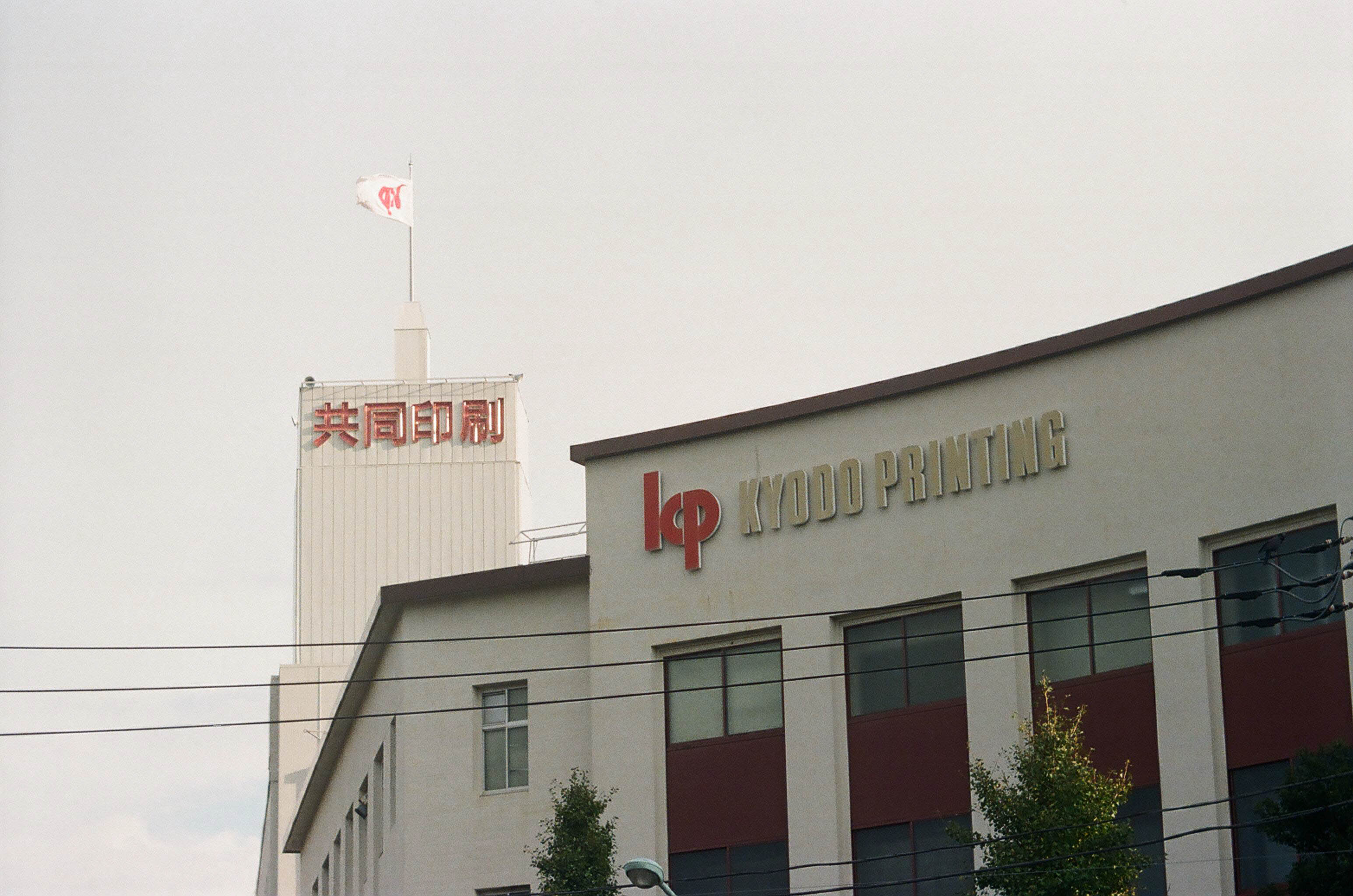 Kyodo Printing in Tokyo